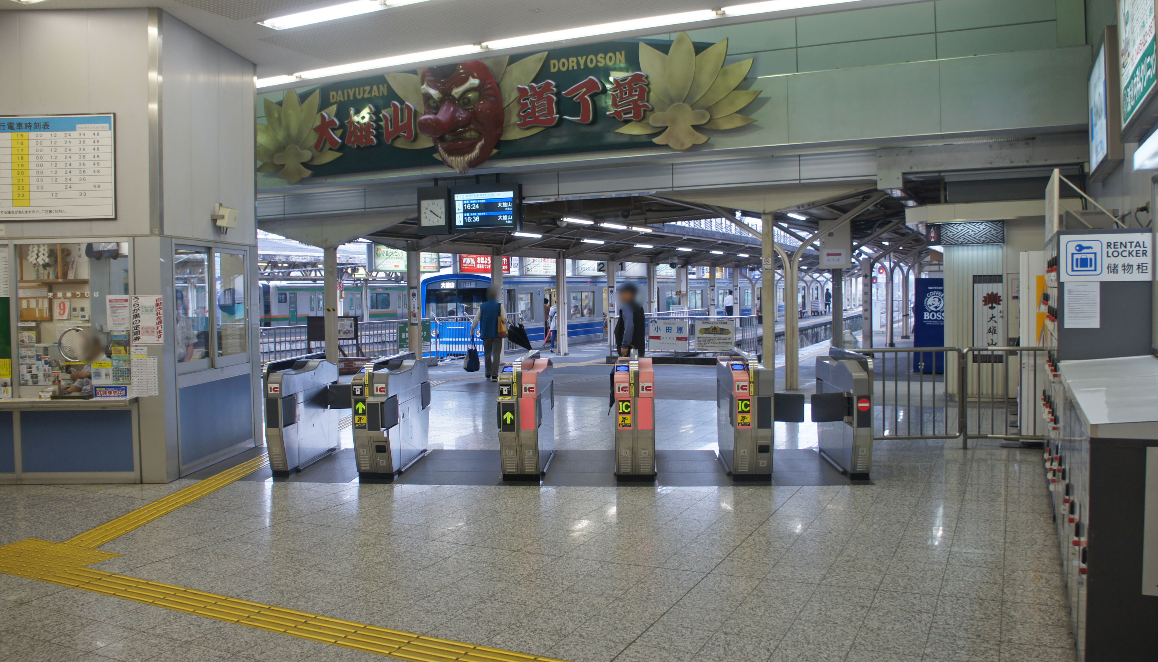 Gates of Izu-Hakone Railway Daiyuzan-Line Odawara Station